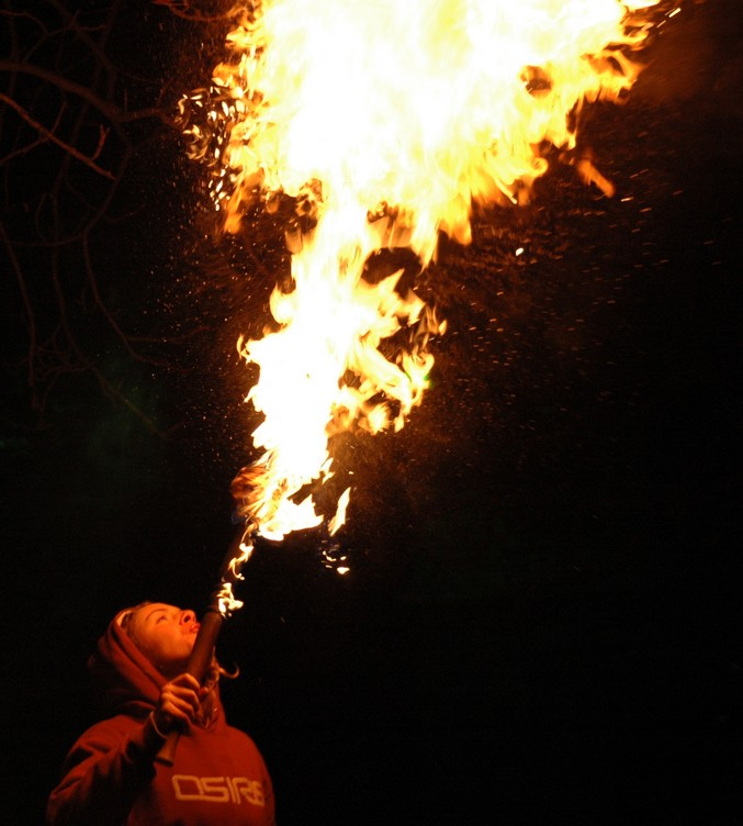 Photographer : Jean-Romain PAC Description : Fire Breather (cracheur de feu) - Cracher= to spit Location : Lyon, FRANCE